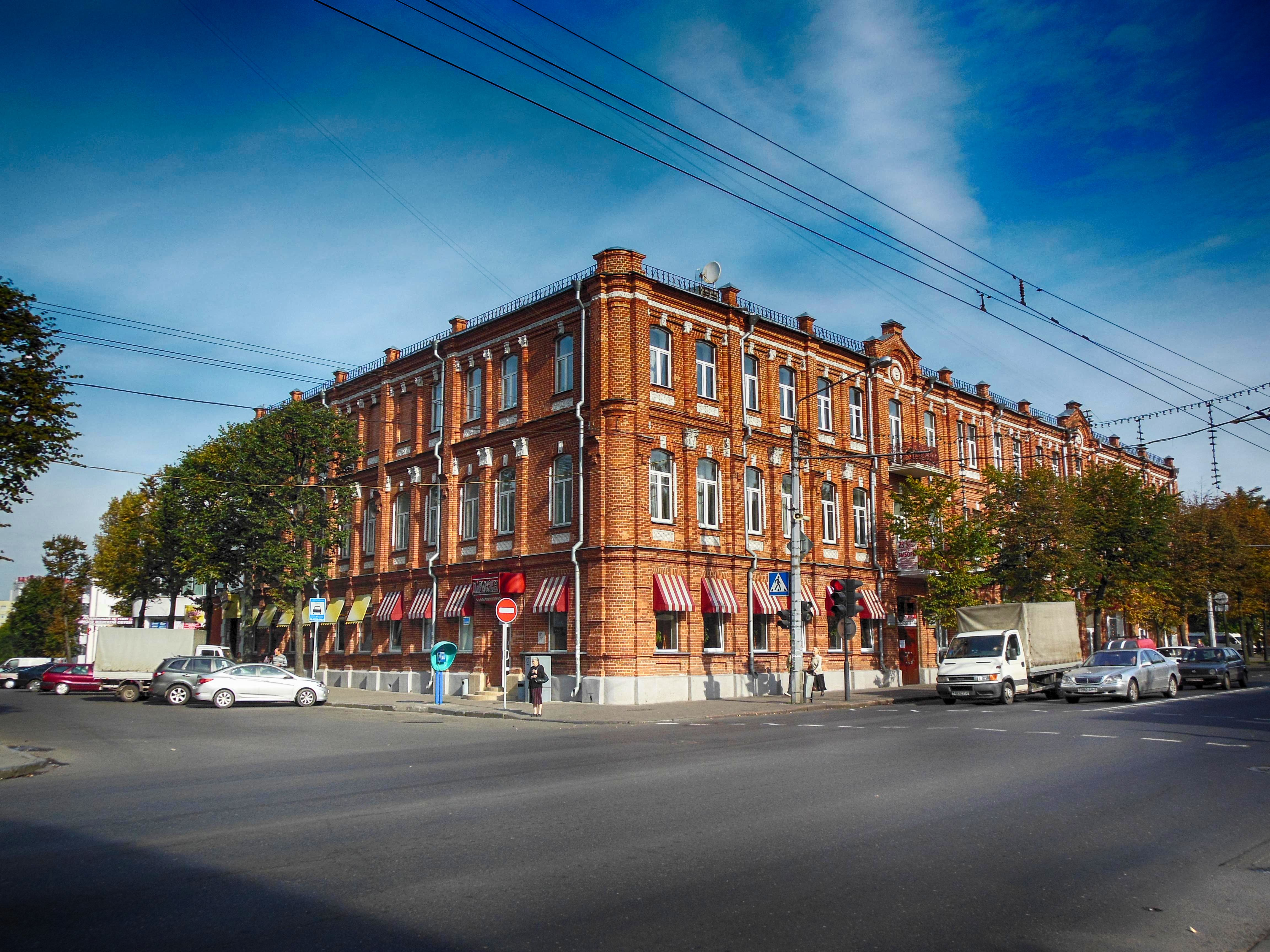 House of former nobility meetings (built in 2nd half of 19th century), Mogilev, Belarus Беларуская (тарашкевіца): Будынак былога дваранскага сходу. г. Магілёў This is a photo of Belarusian heritage monument. Reference number: 513Г000038 ( WLM)